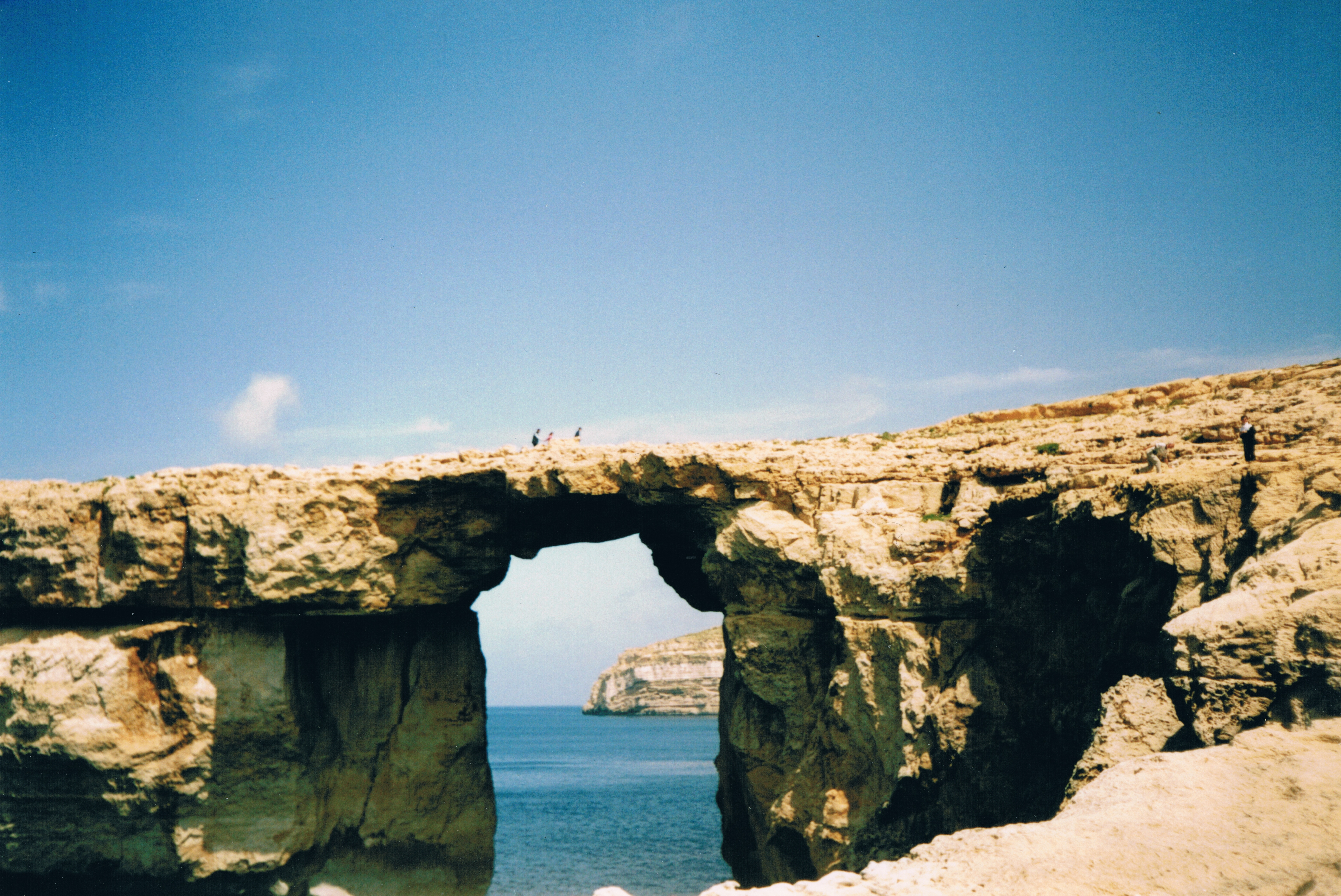 Azure Window, Gozo, April 2003